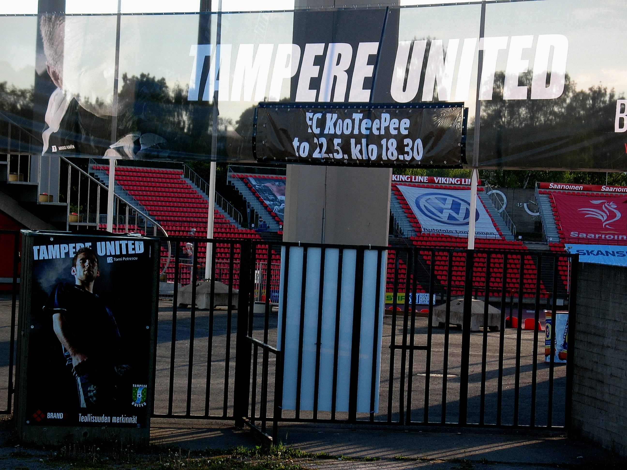 Ratina Stadion in Tampere, Finland